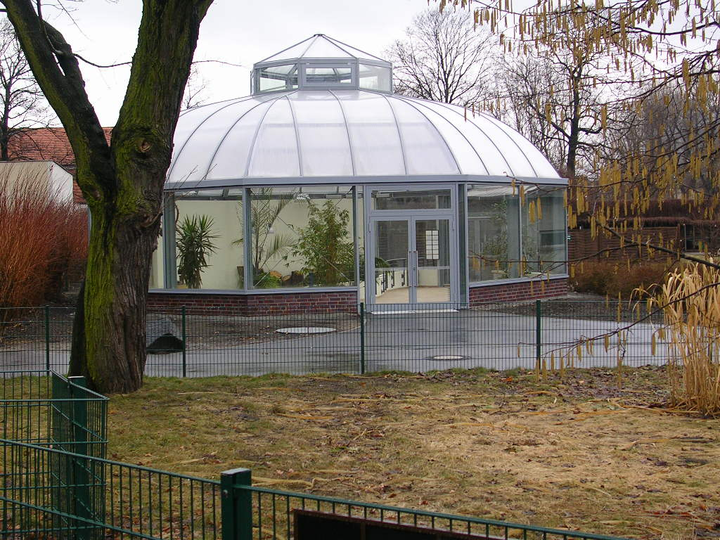 Tierpark Berlin - hibernation house for giant turtles